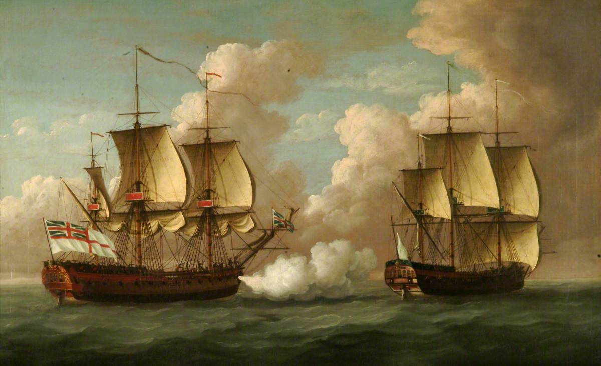 HMS Brune captures French Ship L'oiseau. October 1762. Seven Years War.